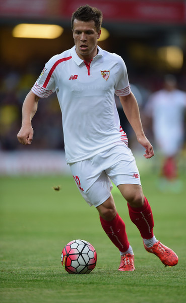 Коноплянка